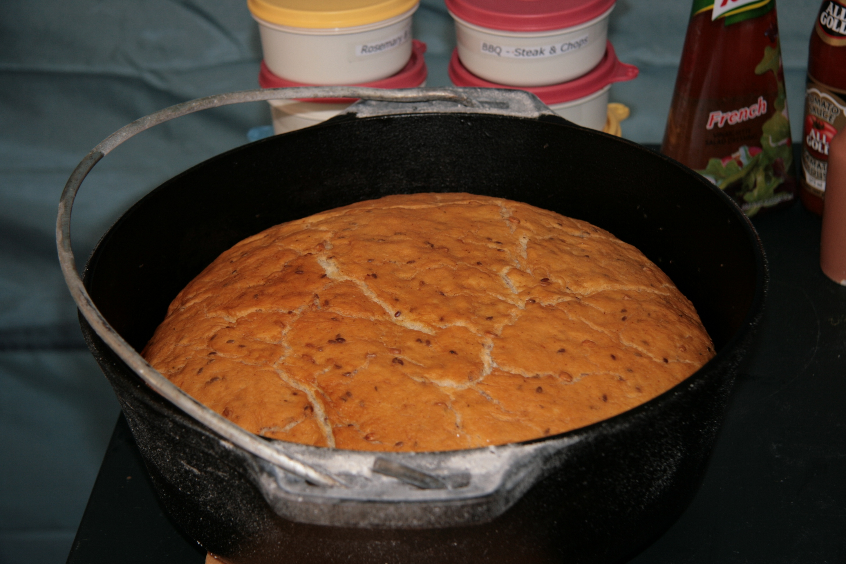 Potbrood